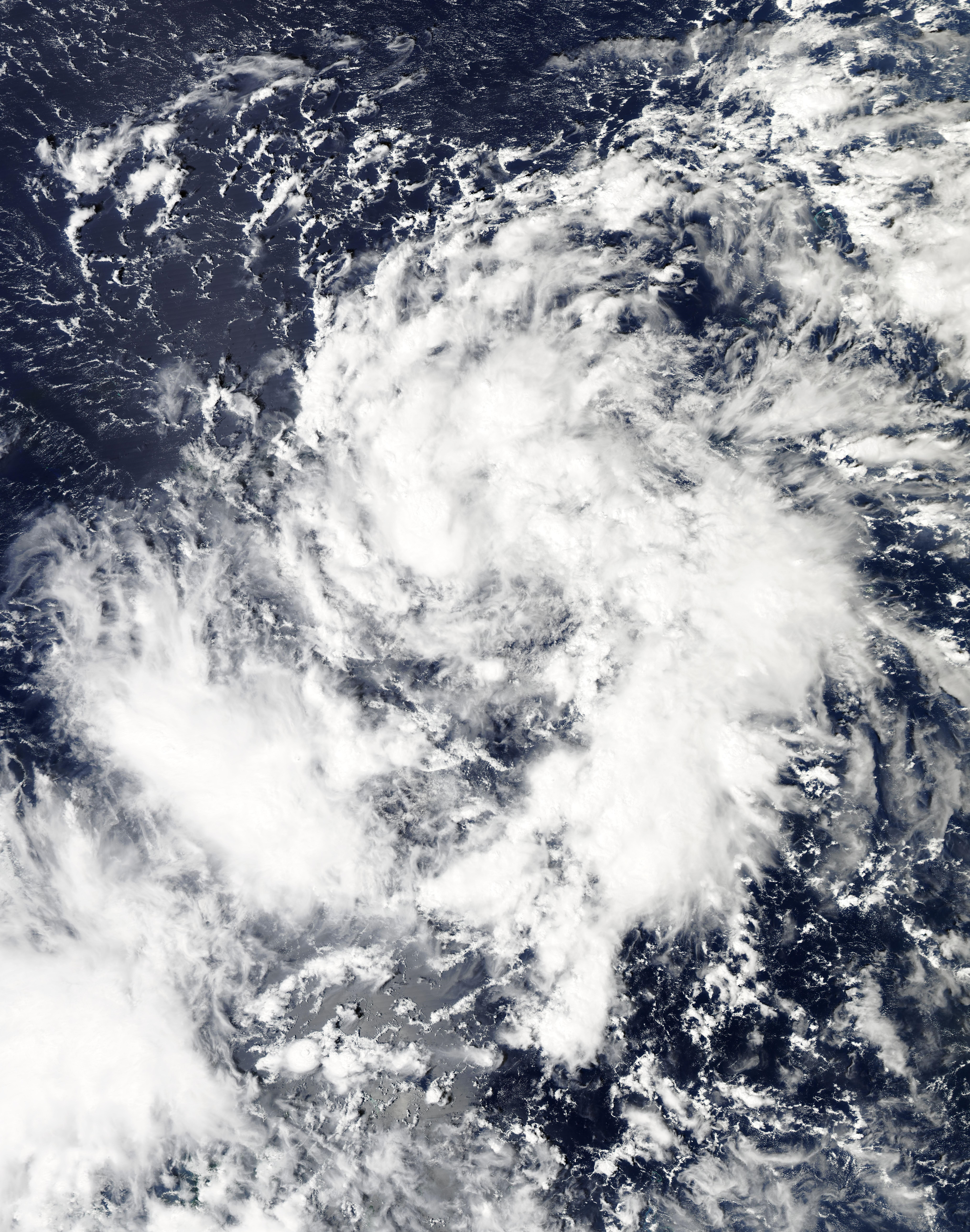 JMA Tropical Depression on November 3,2013